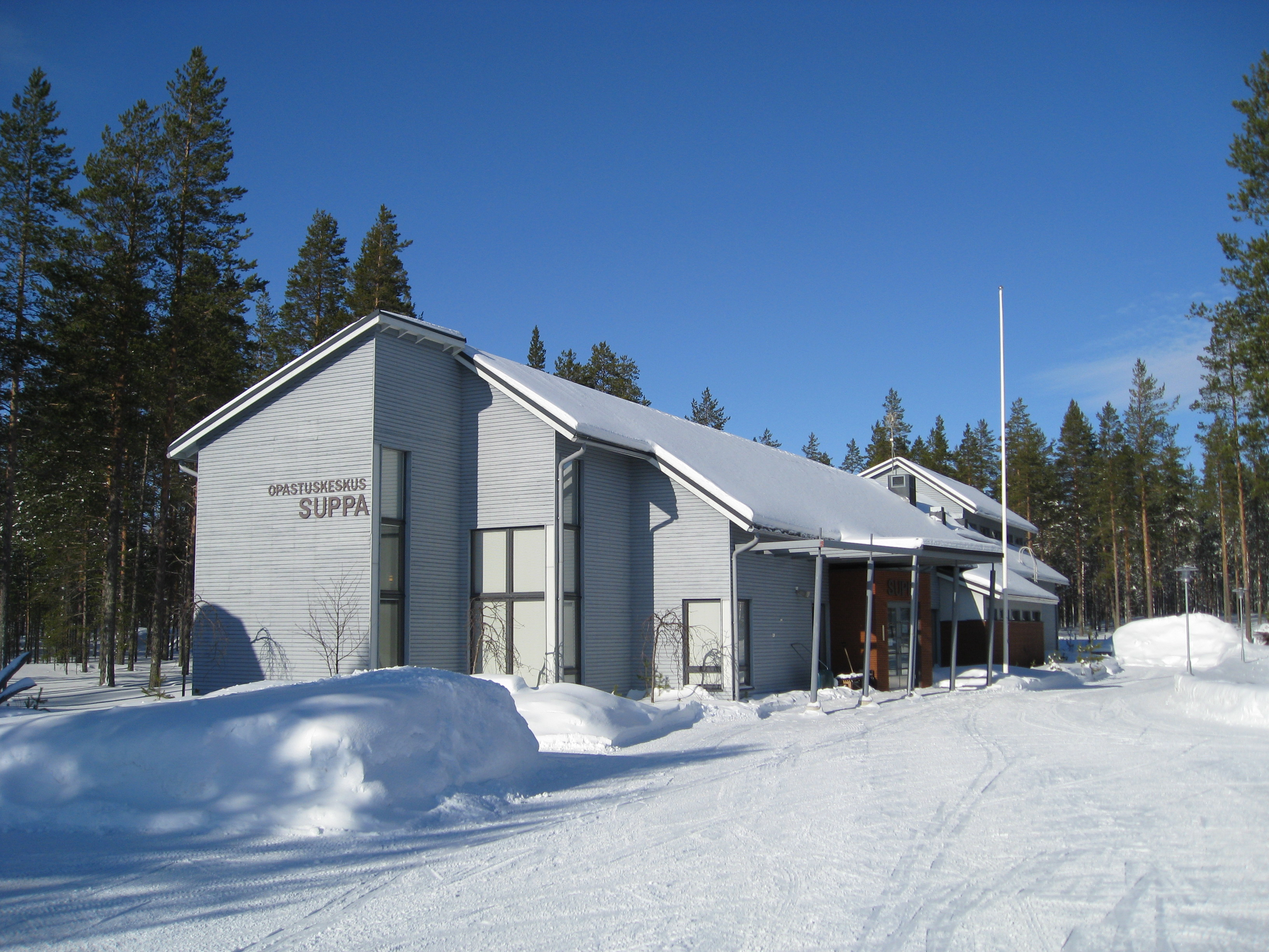 Information centre Suppa in Rokua, Utajärvi, Finland